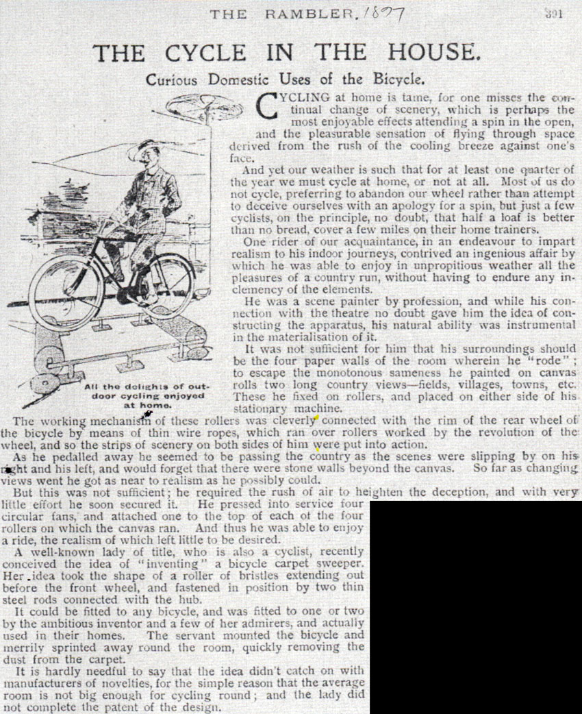 "Cycling at home is tame, for one misses the continual change of scenery, which is perhaps the most enjoyable effects attending a spin in the open." 1897 article about indoor spinning.